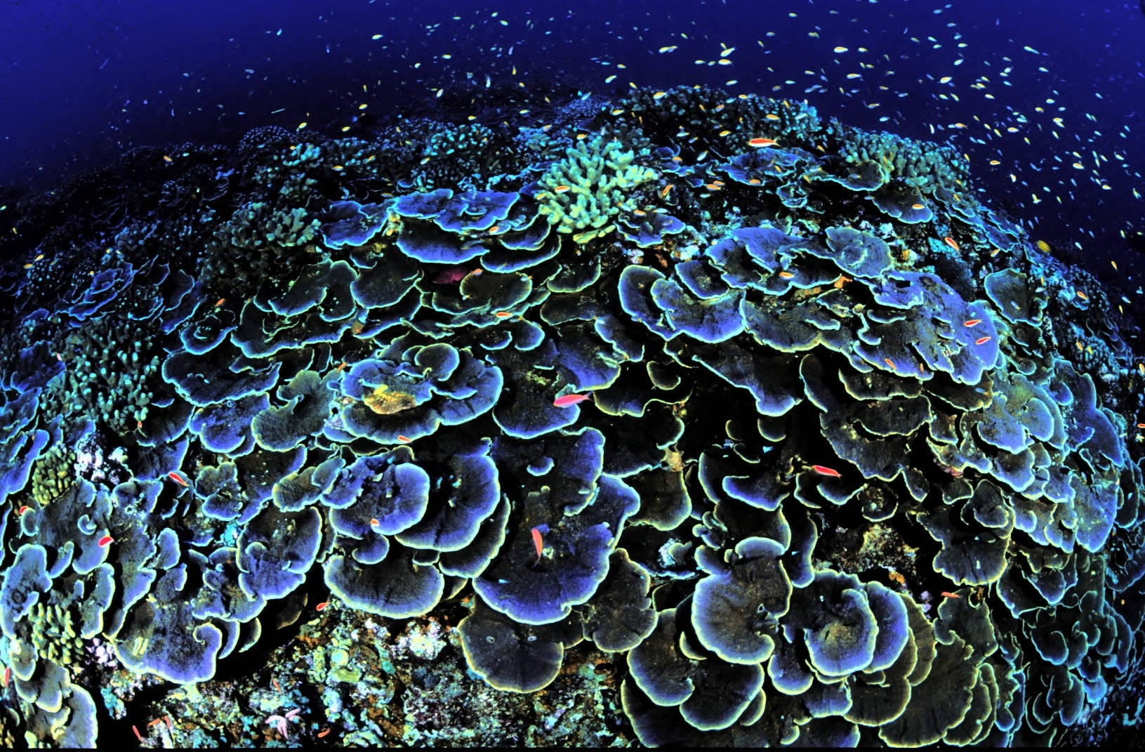 Photo credit: USFWS/Jim Maragos